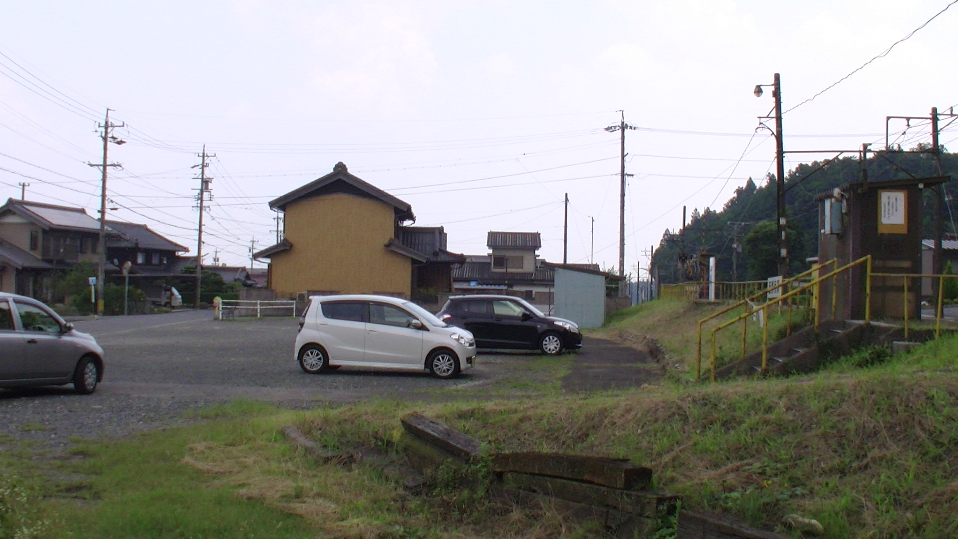 A square of the Nishi-Nojiri station, Sangi-Rail.